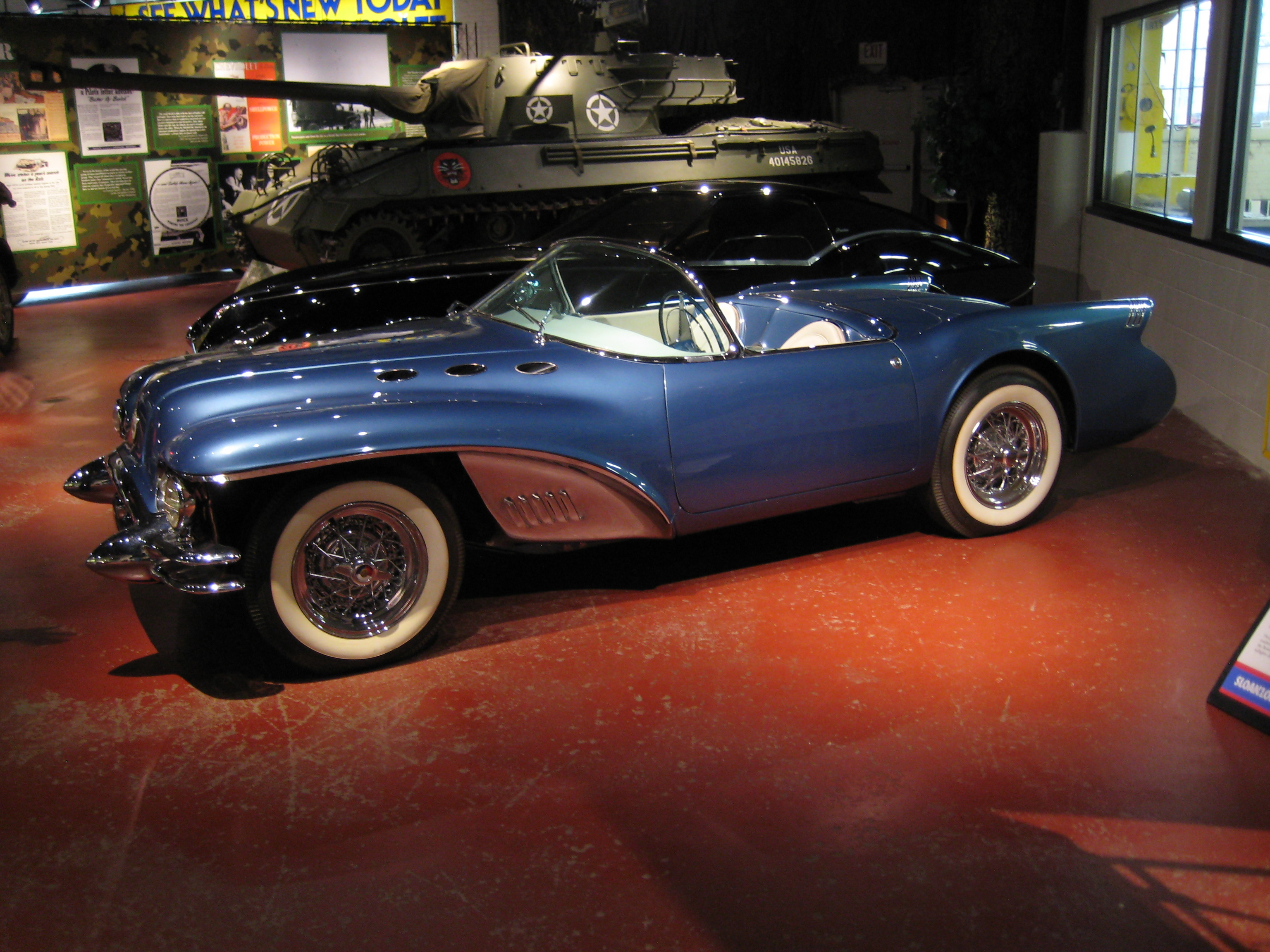 1954 Buick Wildcat II. Sloan Museum, Buick Automotive Center, Flint, Michigan